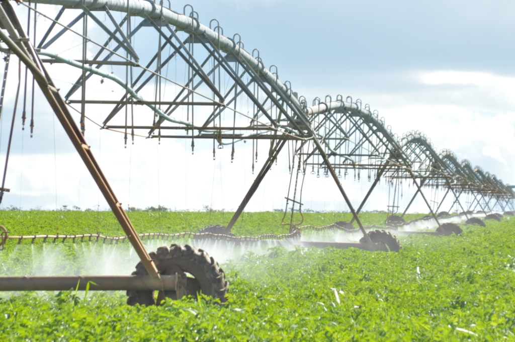 Ganzer Pivot-Barra